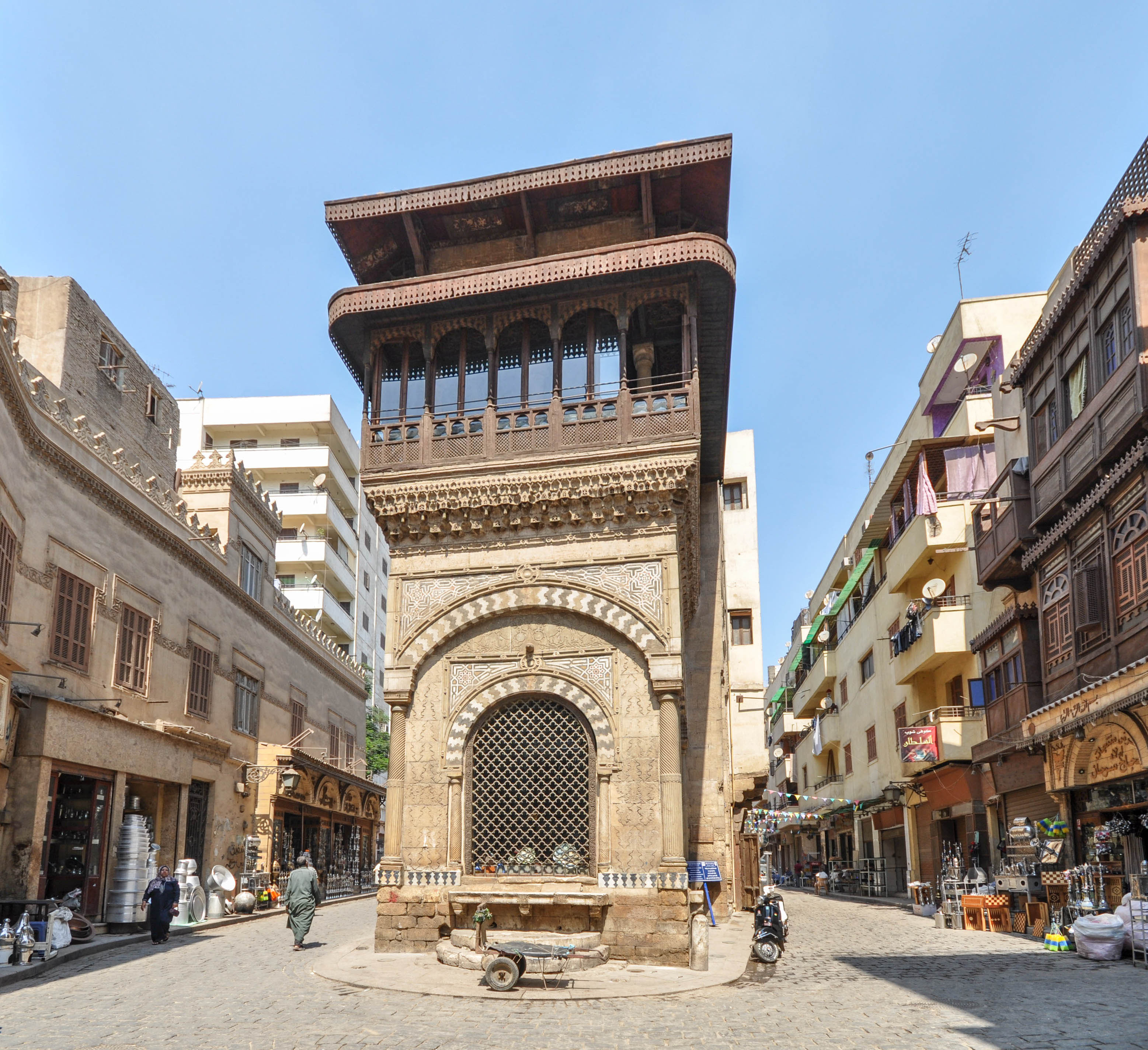 Sabil-Kuttab of Katkhuda is one of the most important monuments in the old part of Islamic Cairo, Egypt. This building is an example of Ottoman and Mamluk architecture mixed with Islamic architecture. It was built in 1744 by a pioneer Egyptian architect, Katkhuda of Egypt ( 'Abd al Rahman Katkhuda' ). Some architects describe it as "The treasure of Ottoman architecture". Sabil-Kuttab of Katkhuda is an important monument in Cairo, Egypt, located on Al-Muizz Lideenillah Street. Sabils and Kuttabs were almost everywhere in old Islamic Cairo during Mamluk and Ottoman times. Sabils are facilities providing free, fresh water for thirsty people who are passing by. Kuttabs are primitive kinds of elementary schools that teach children to read and write